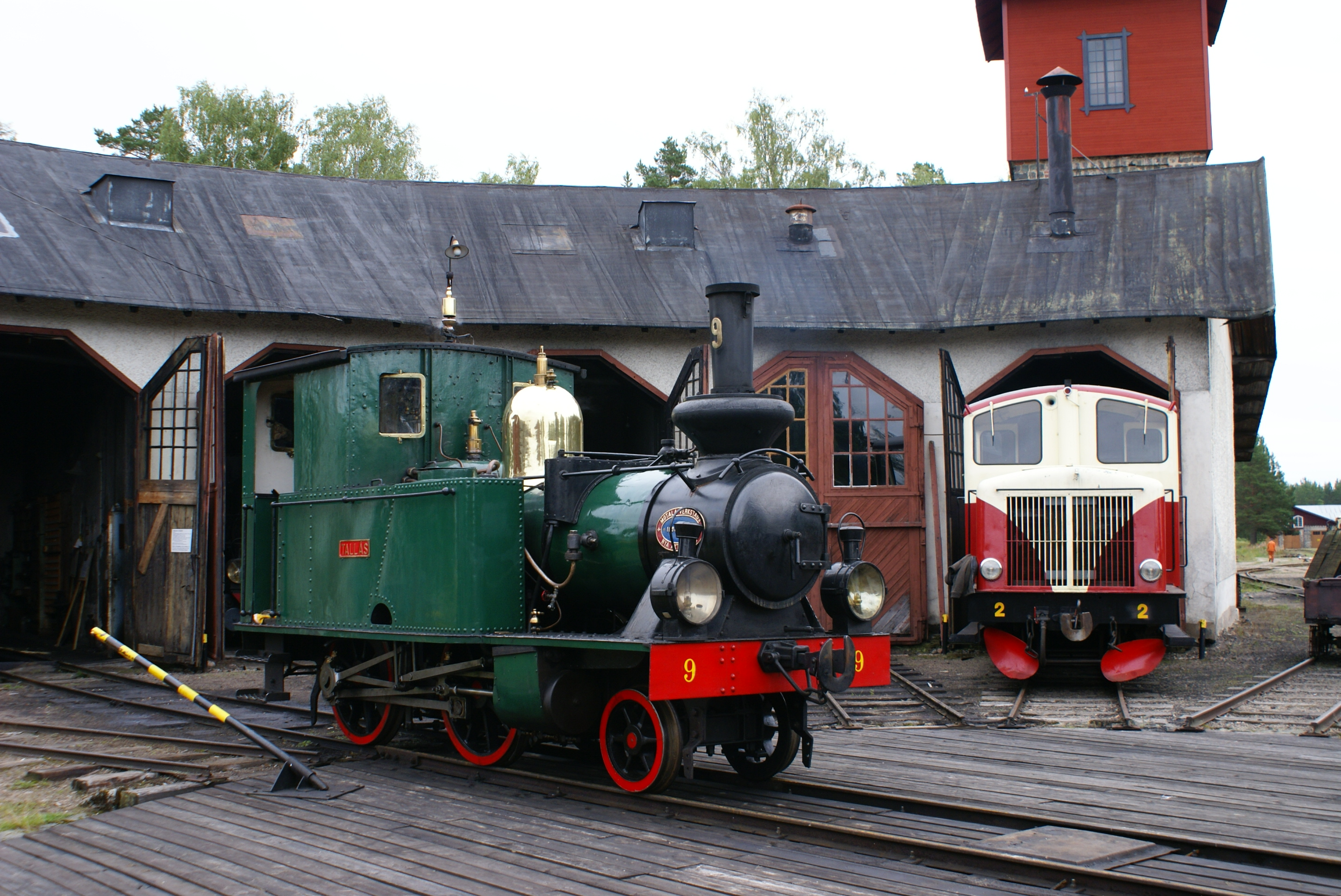 Steam enginge no 9 Tallås and former NKLJ shunting engine 2 at the roundtable Jädraås